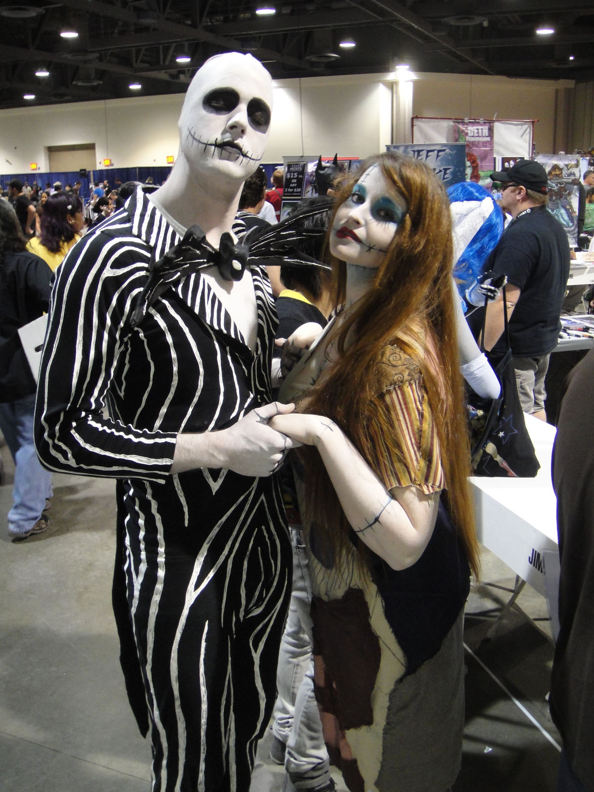 photo 2011 Pop Culture Geek taken by Doug Kline If you're interested in higher resolution versions of my images, contact me via my profile page.